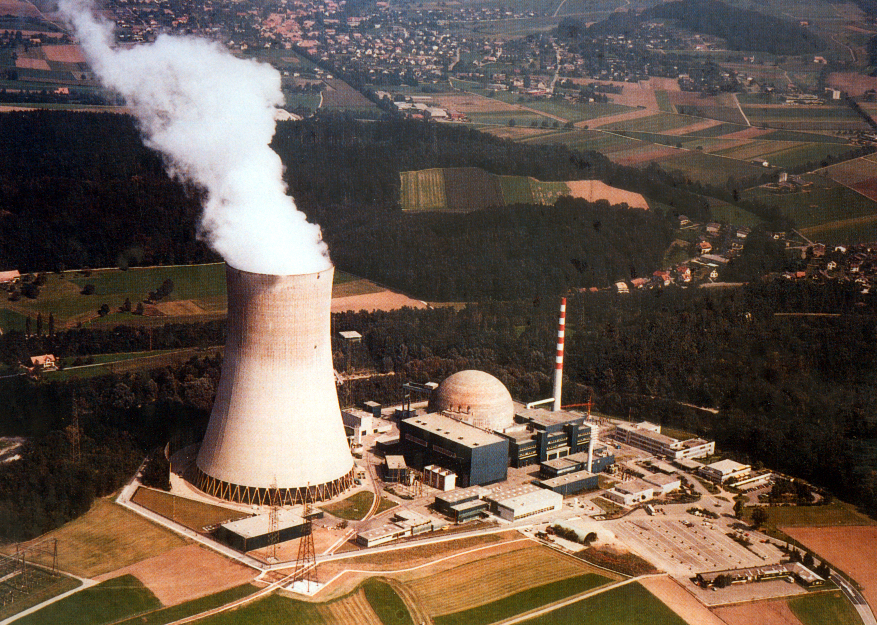 Gösgen Nuclear Power Plant. (Gösgen, Germany) Photo Credit: IAEA